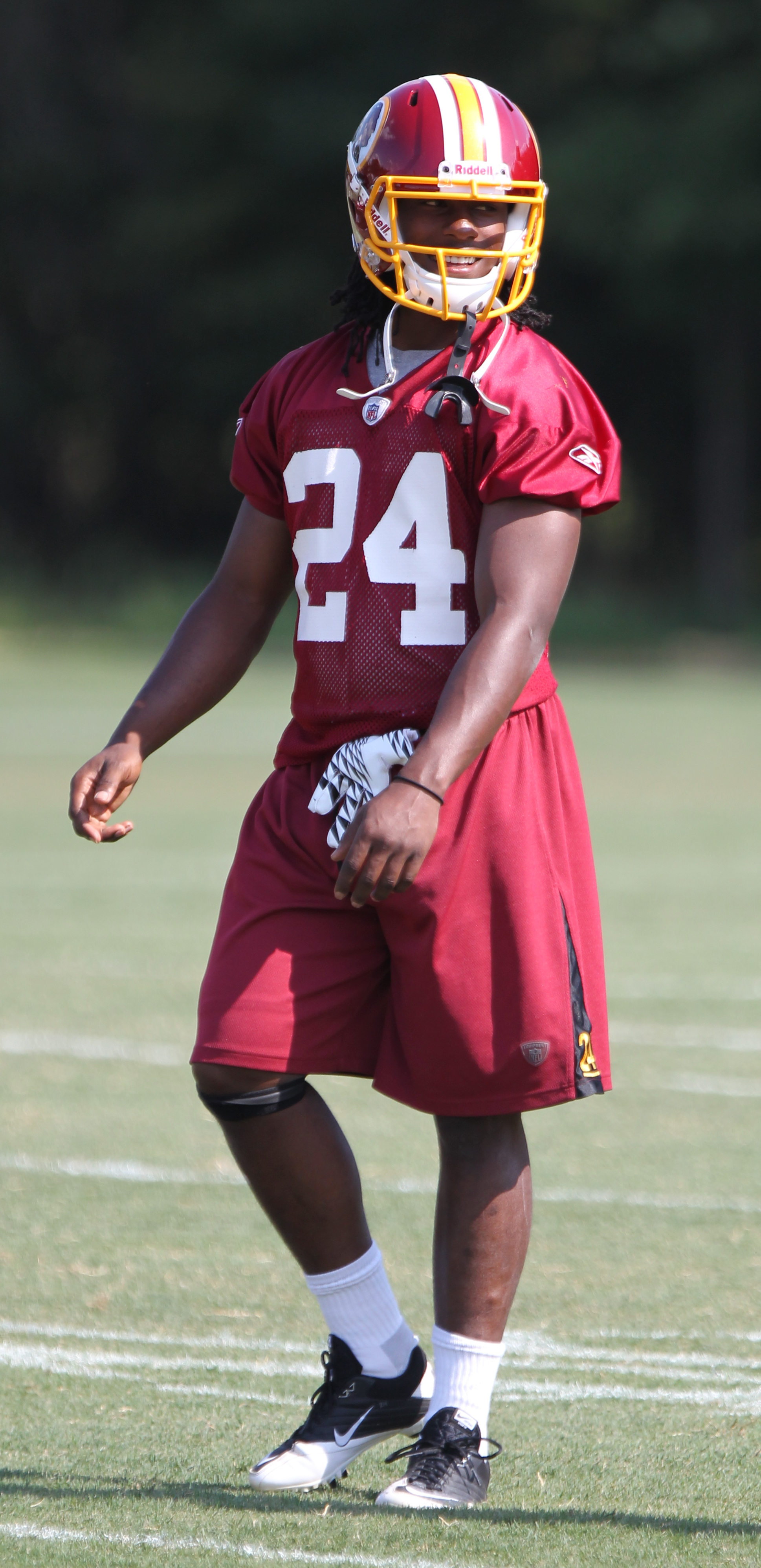 Washington Redskins Training Camp August 4, 2011